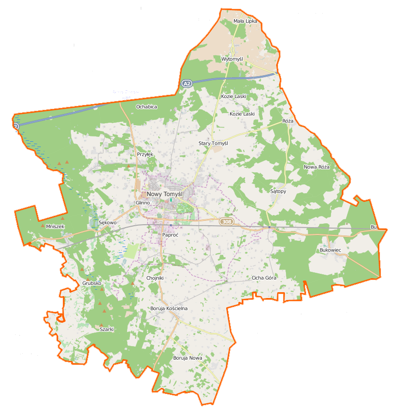 Map of Gmina Nowy Tomyśl, Poland This map of Nowy Tomyśl (gmina) was created from OpenStreetMap project data, collected by the community. This map may be incomplete, and may contain errors. Don't rely solely on it for navigation. Border coordinates52.401216.0129←↕→16.295052.2219